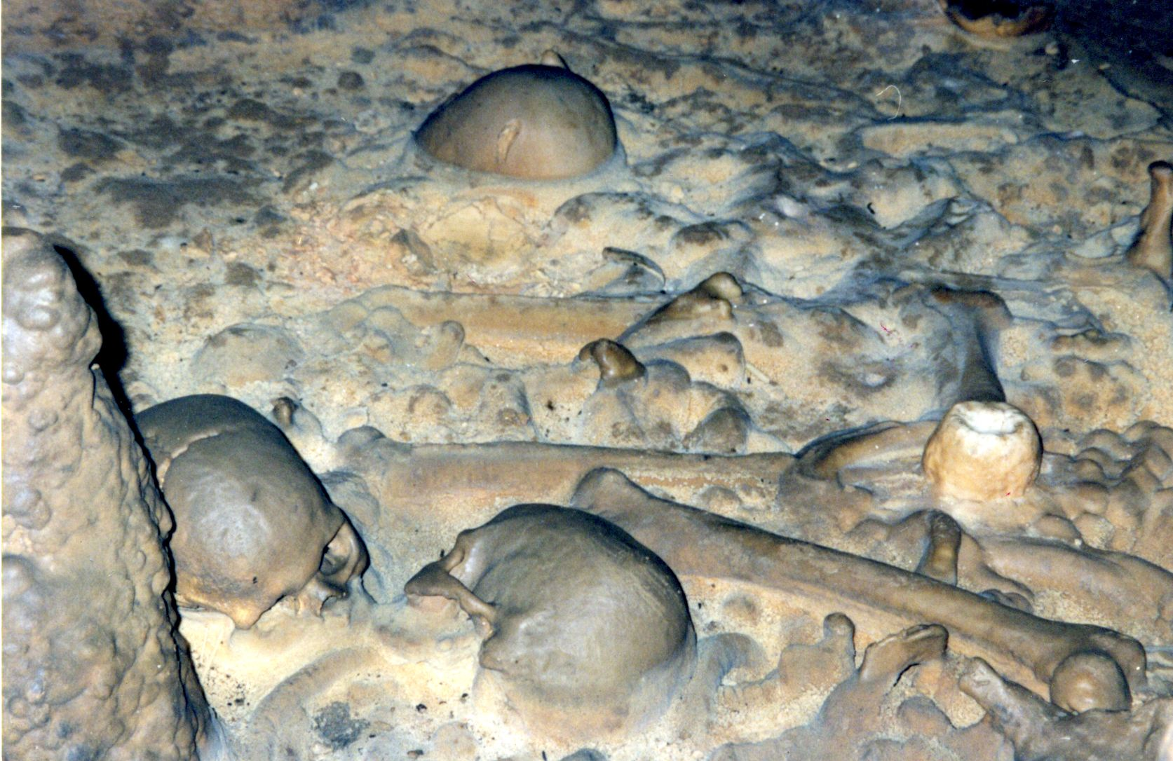 Human bones in a Linars cave, Alzou valley, Rocamadour, Lot, France.